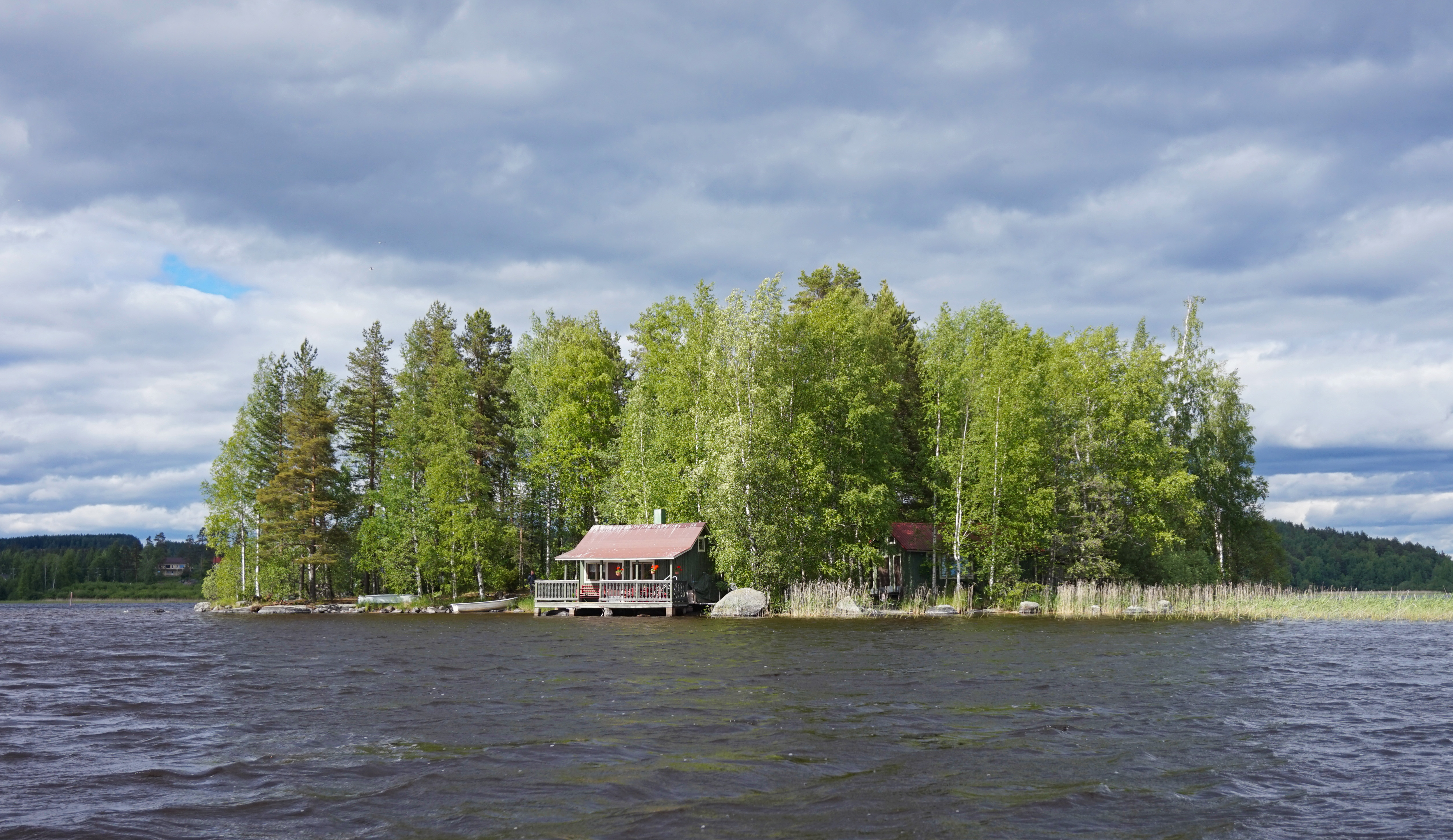 The island Tiirinsaari in Päijänne lake, Jyväskylä.This photograph was taken with a Sony ILCE-5000